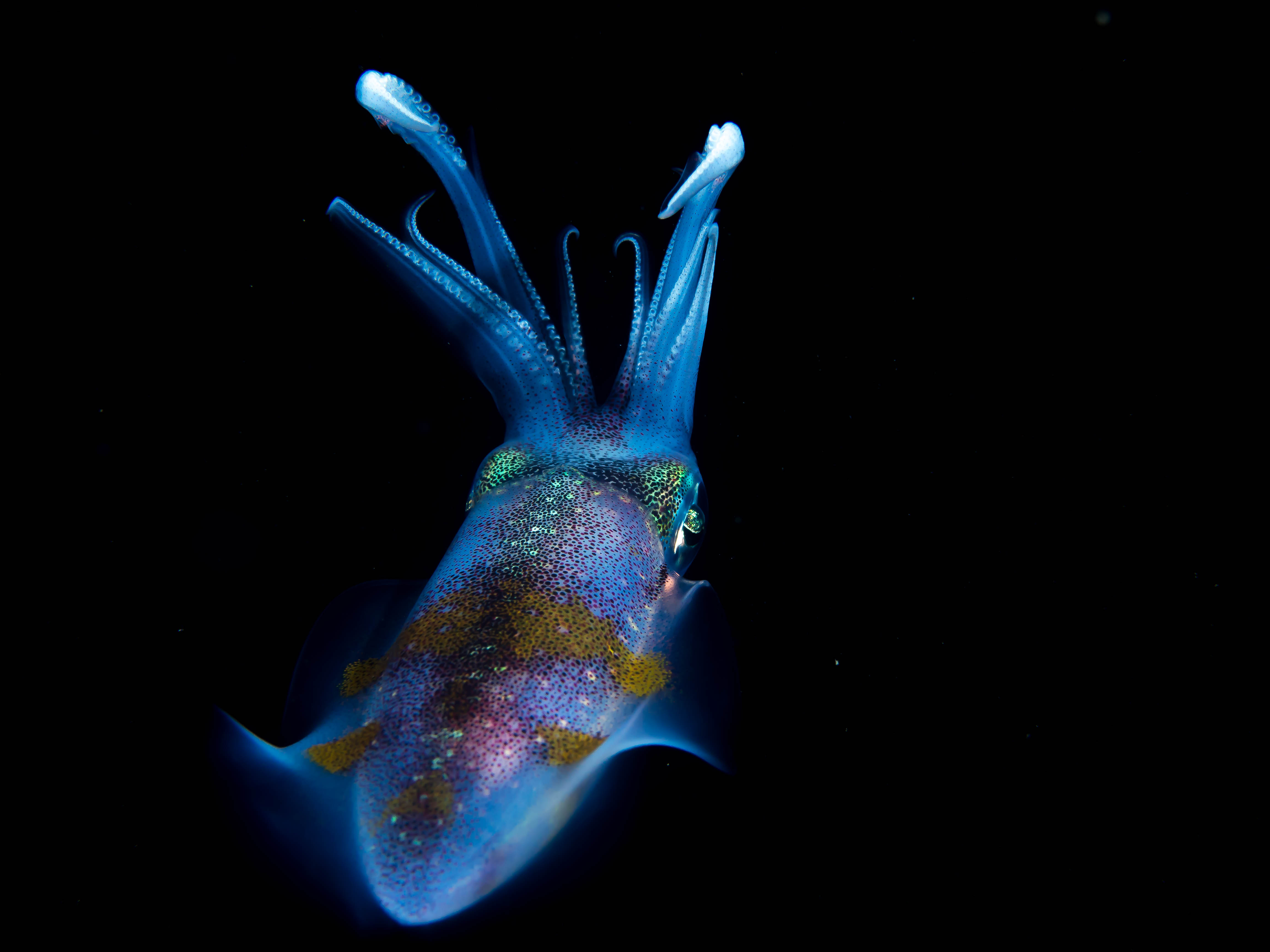 Diving Halmahera with Weda Resort during new years 2016/2017 / Indonesia - Bigfin reef squid (Sepioteuthis lessoniana)